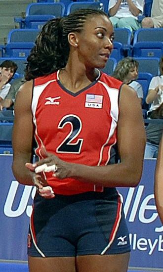 American volleyball player Danielle Scott-Arruda